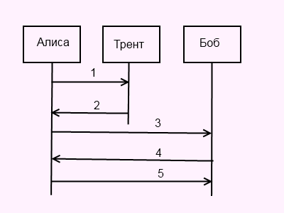 Needham-Schroeder Symmetric-key Authentication Protocol